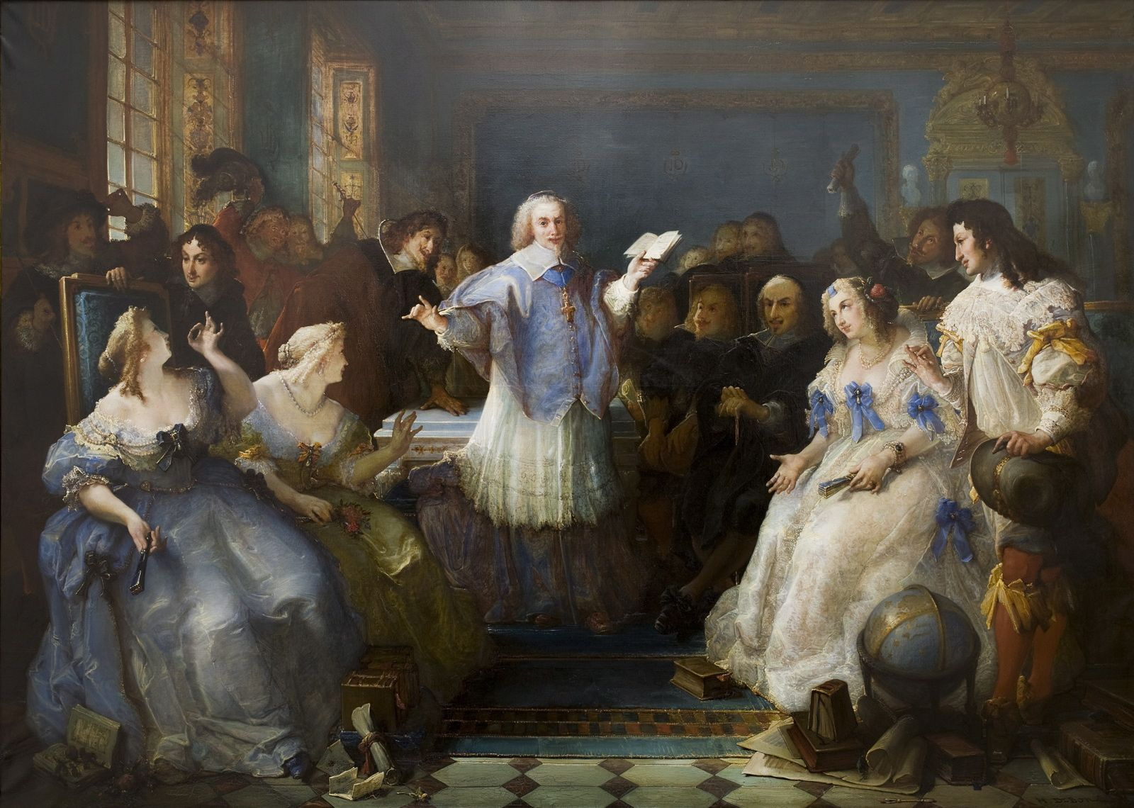 Painting of de salon in the Hôtel de Rambouillet